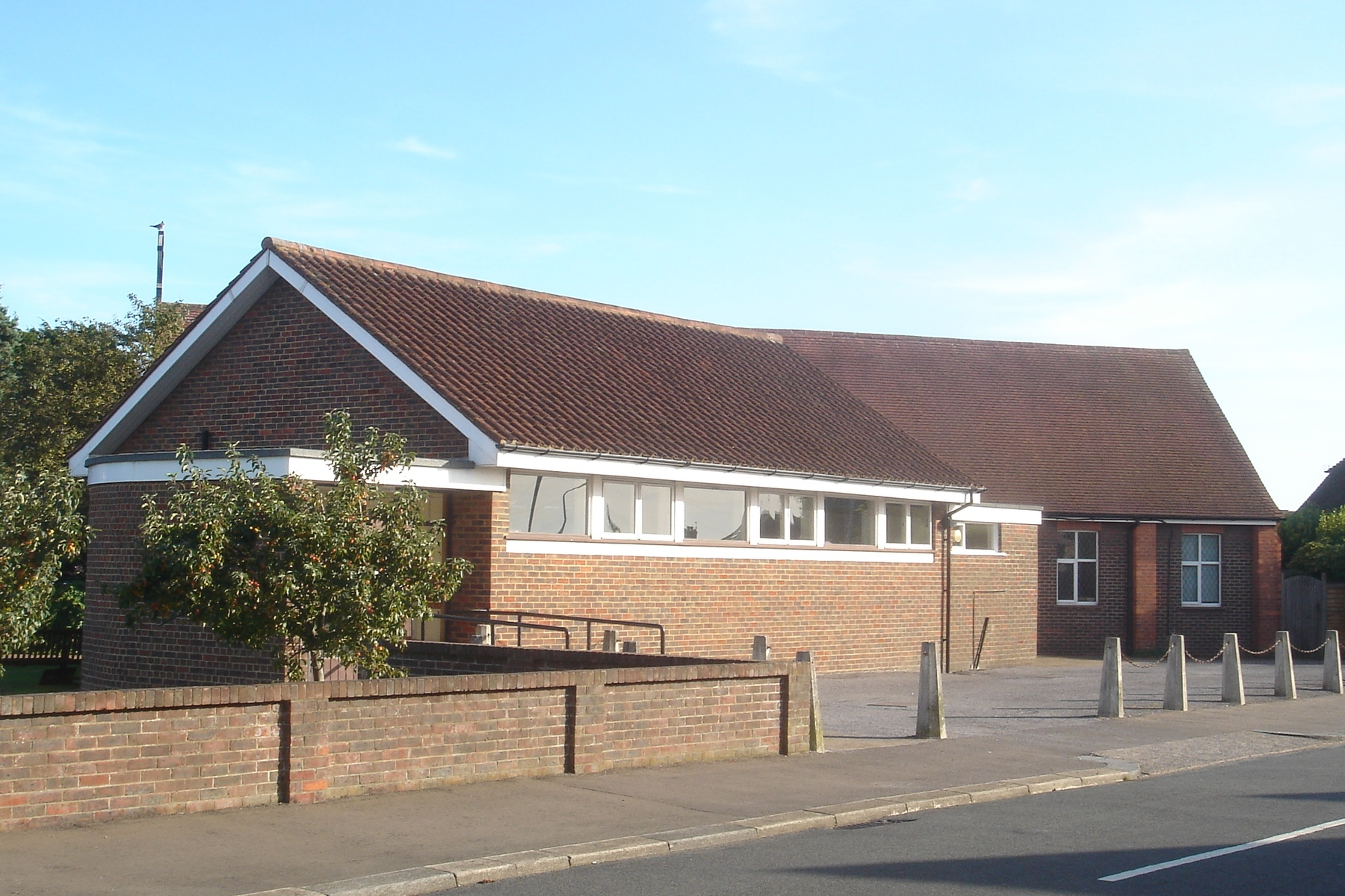 St Laurence's church, Sea Place, Goring-by-Sea, Worthing, West Sussex, England. Built in 1962 to replace a mission chapel of St Mary's parish church. Subsequently extended